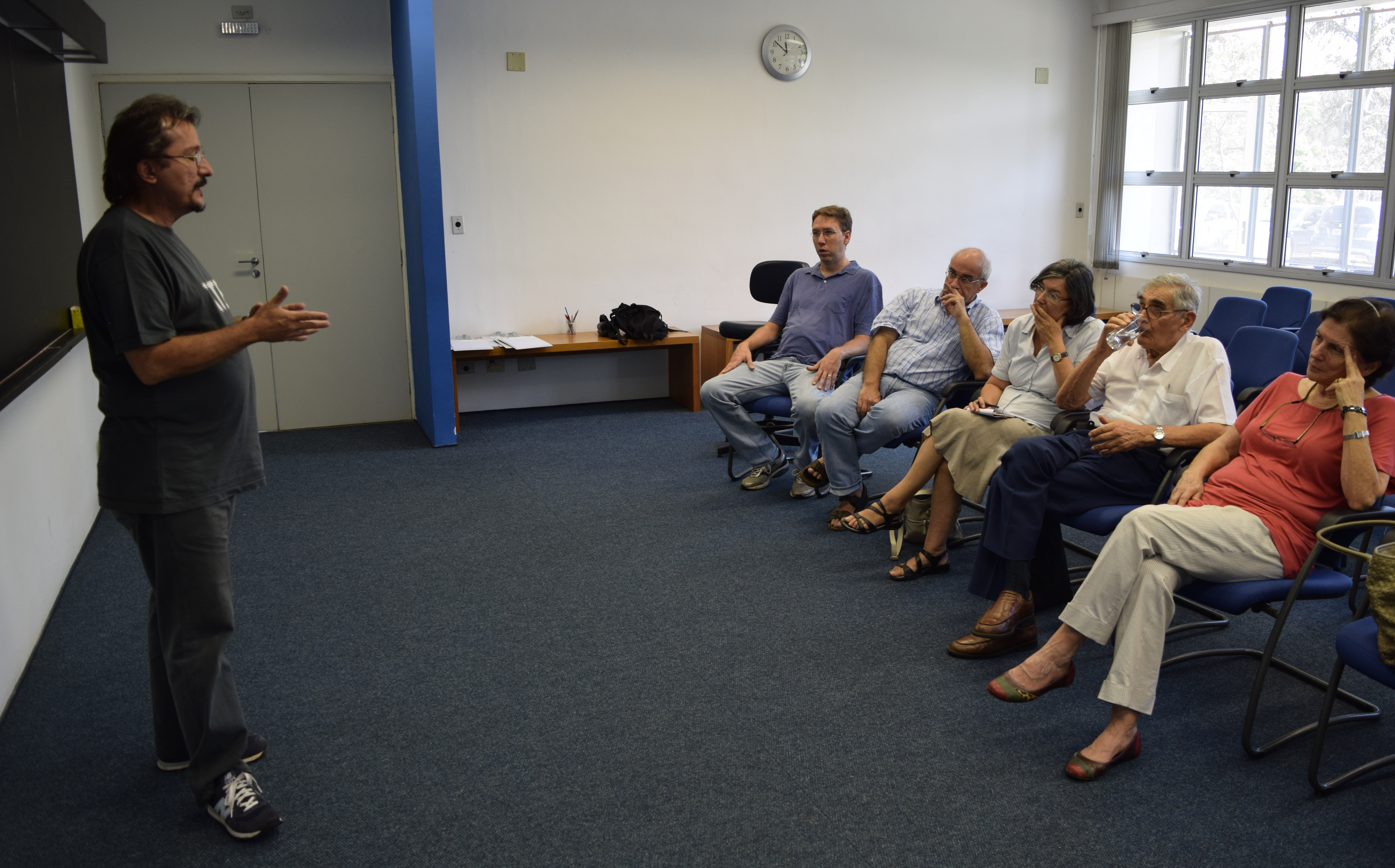 Prof. Antonio Carlos Roque, University of São Paulo, at the 2015 NeuroMat Scientific Dissemination Meeting